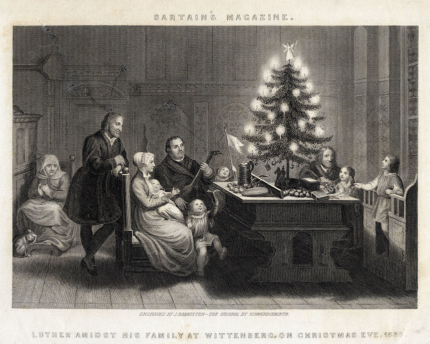 Steel engraving of Martin Luther’s Christmas Tree, from Sartain’s Magazine, circa 1860